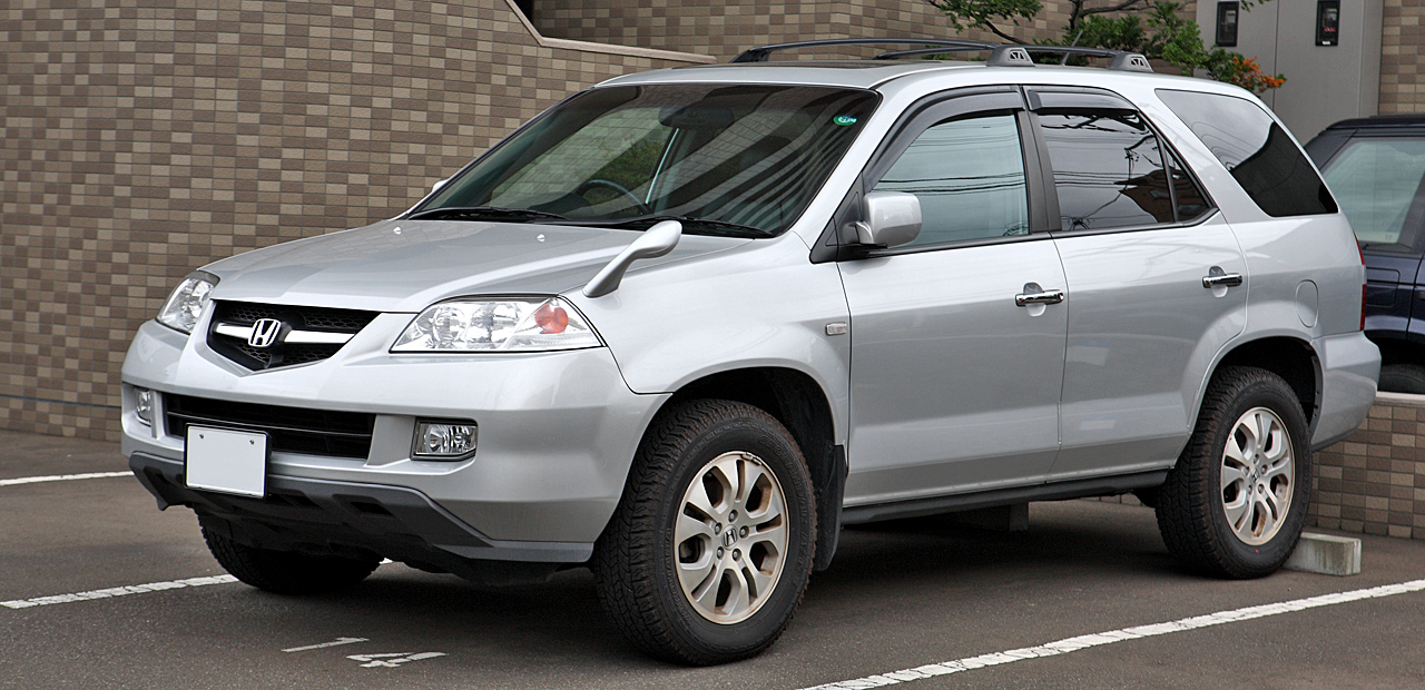 Honda MDX ( Japan spec )